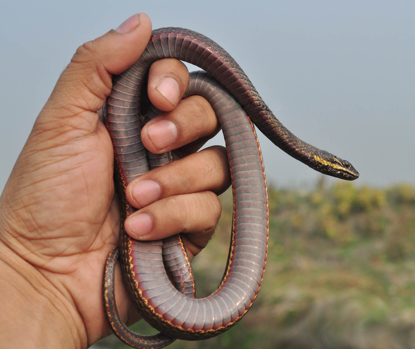 X.cerasogaster from Kolkata, West Bengal, India